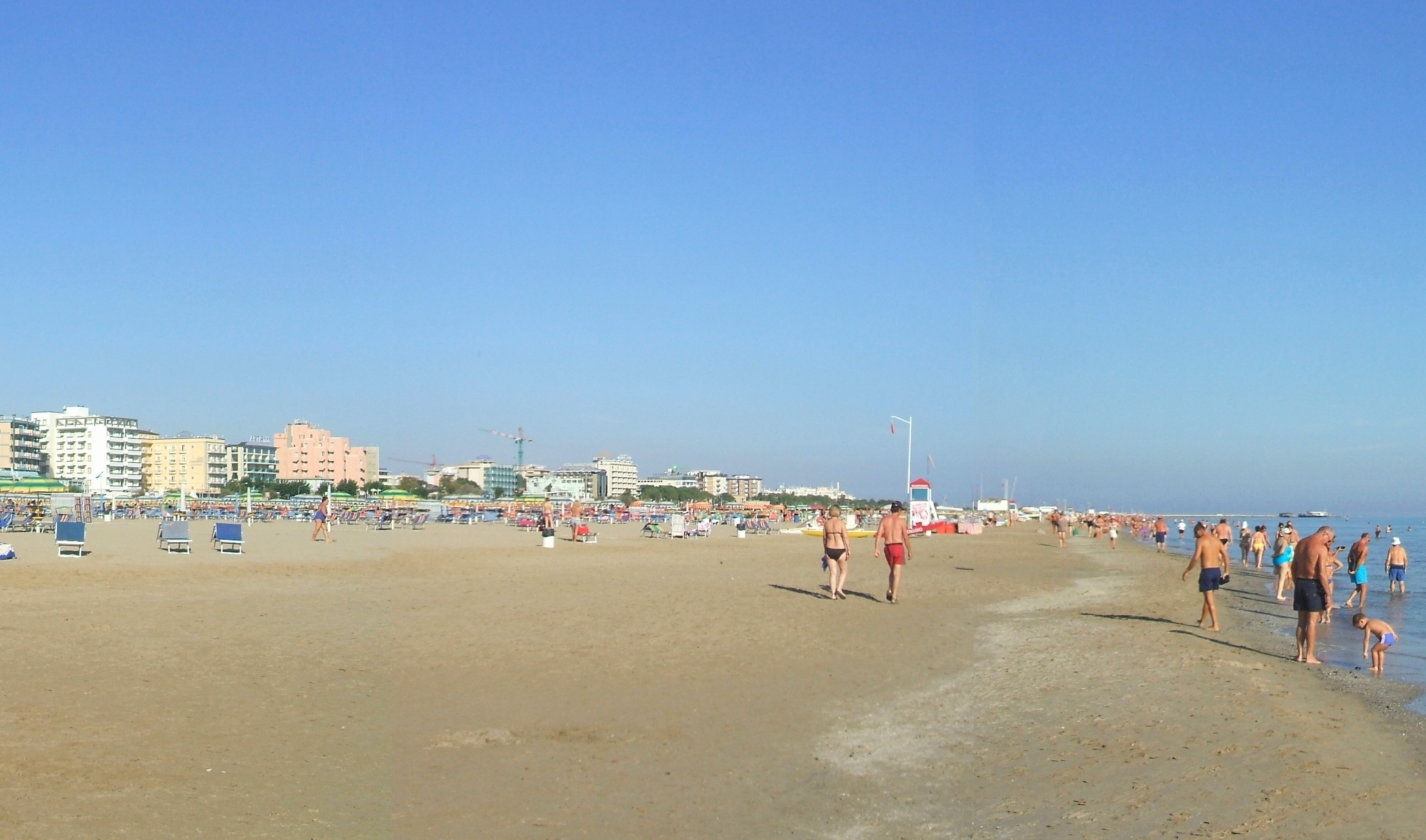 View of Rimini beach in summer